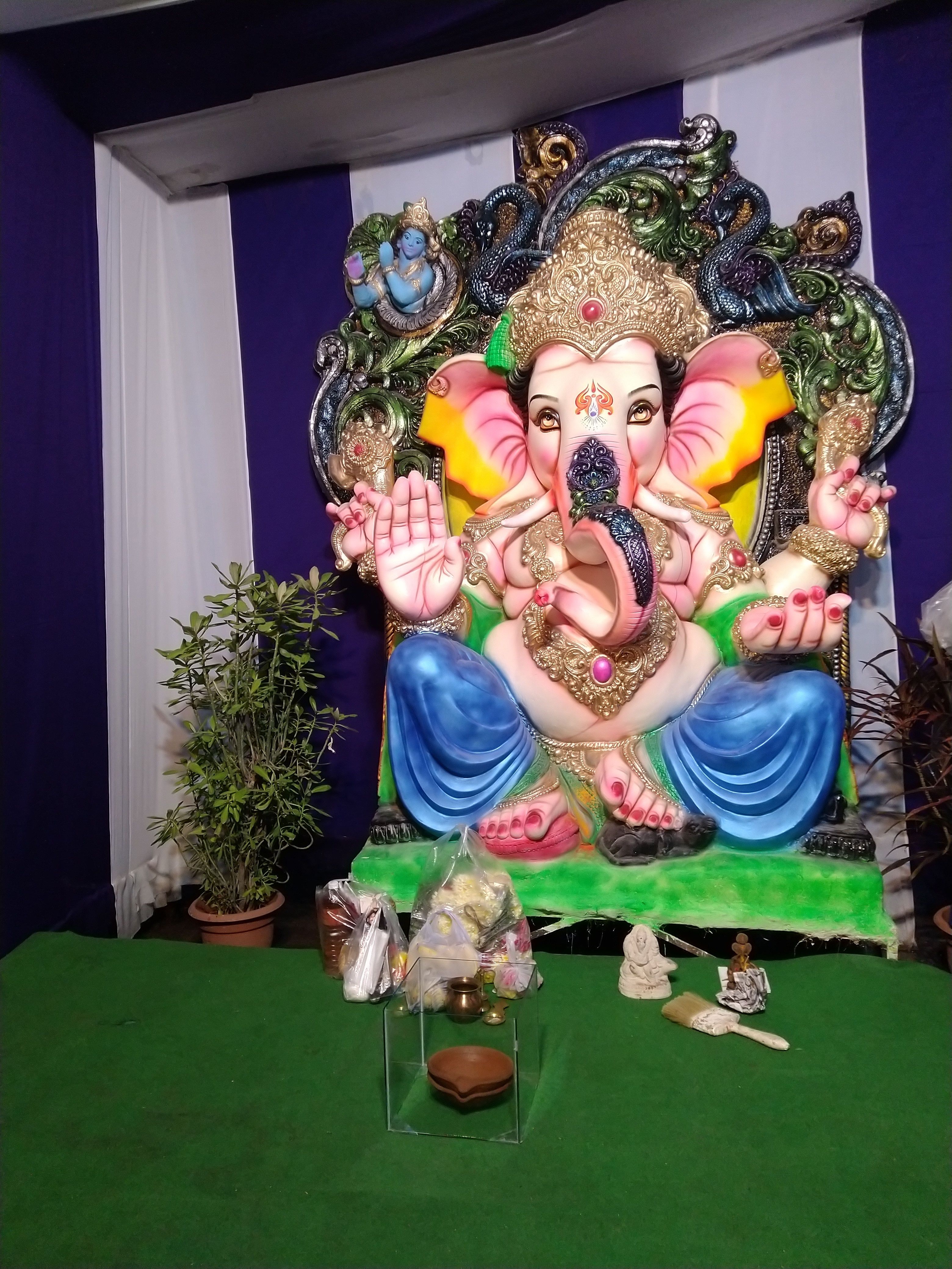 This photo is taken on 2nd September, 2019 in Anand Nagar Colony, Khairtabad.